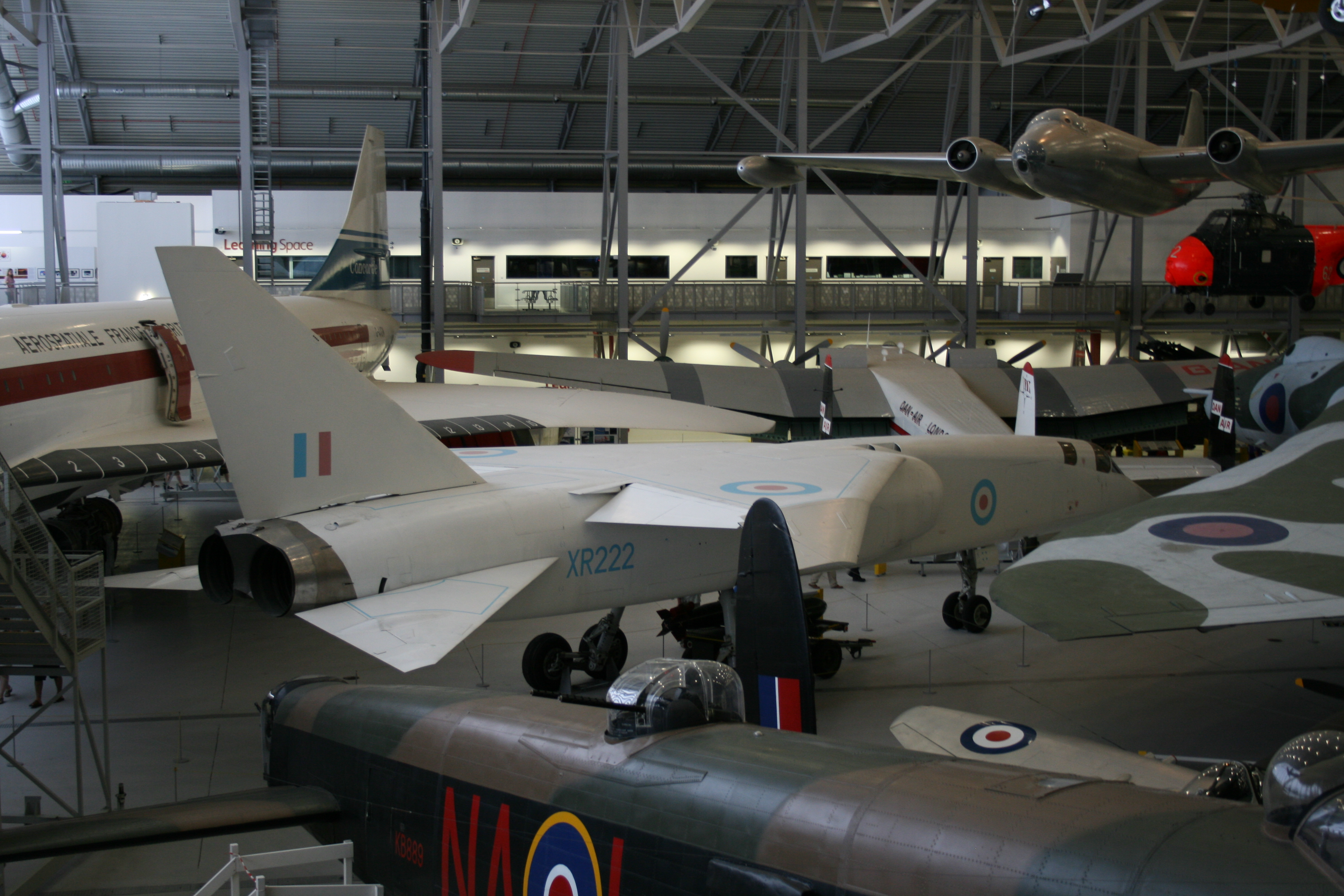 TSR-2 prototype XR222 on display in the Imperial War Museum at RAF Duxford, surrounded by other museum aircraft.